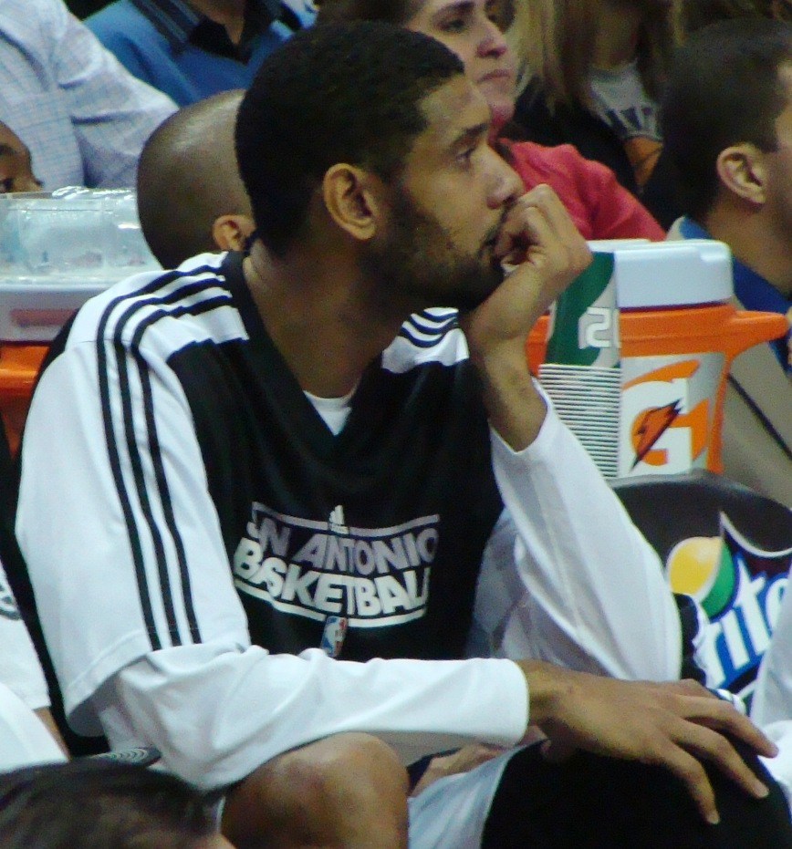 Tim Duncan of the San Antonio Spurs, during the Spurs-Nuggets match on 12-22-2010 in San Antonio, TX.